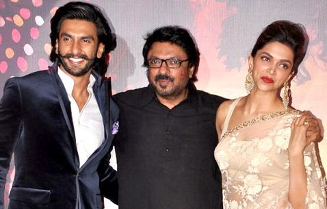 Ranveer Singh, Sanjay Leela Bhansali and Deepika Padukone at RAM LEELA's trailer launch